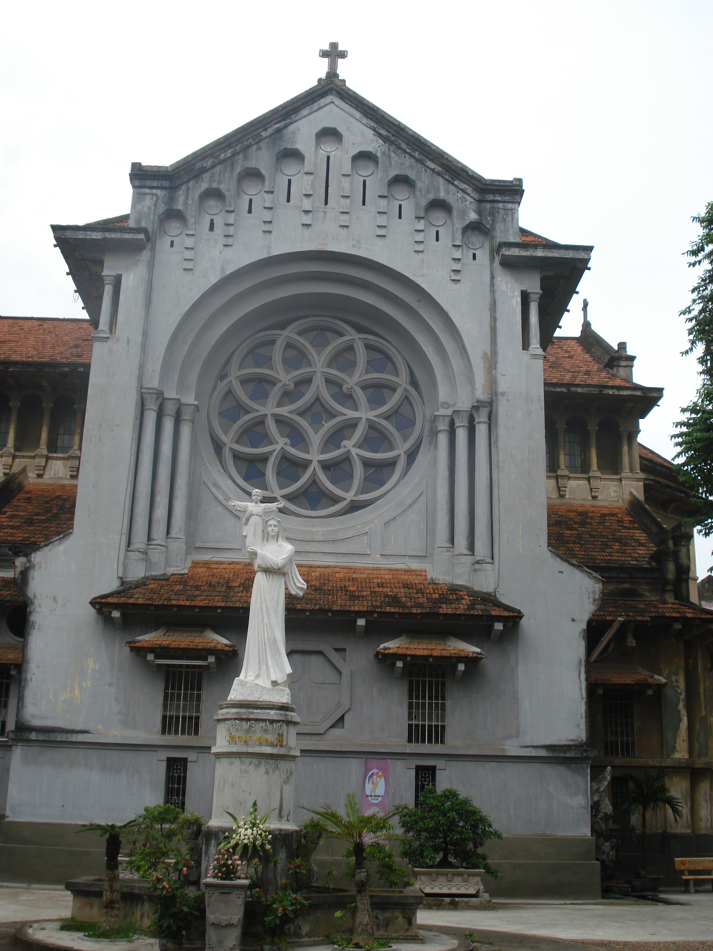 Cửa Bắc church, Hanoi, Vietnam